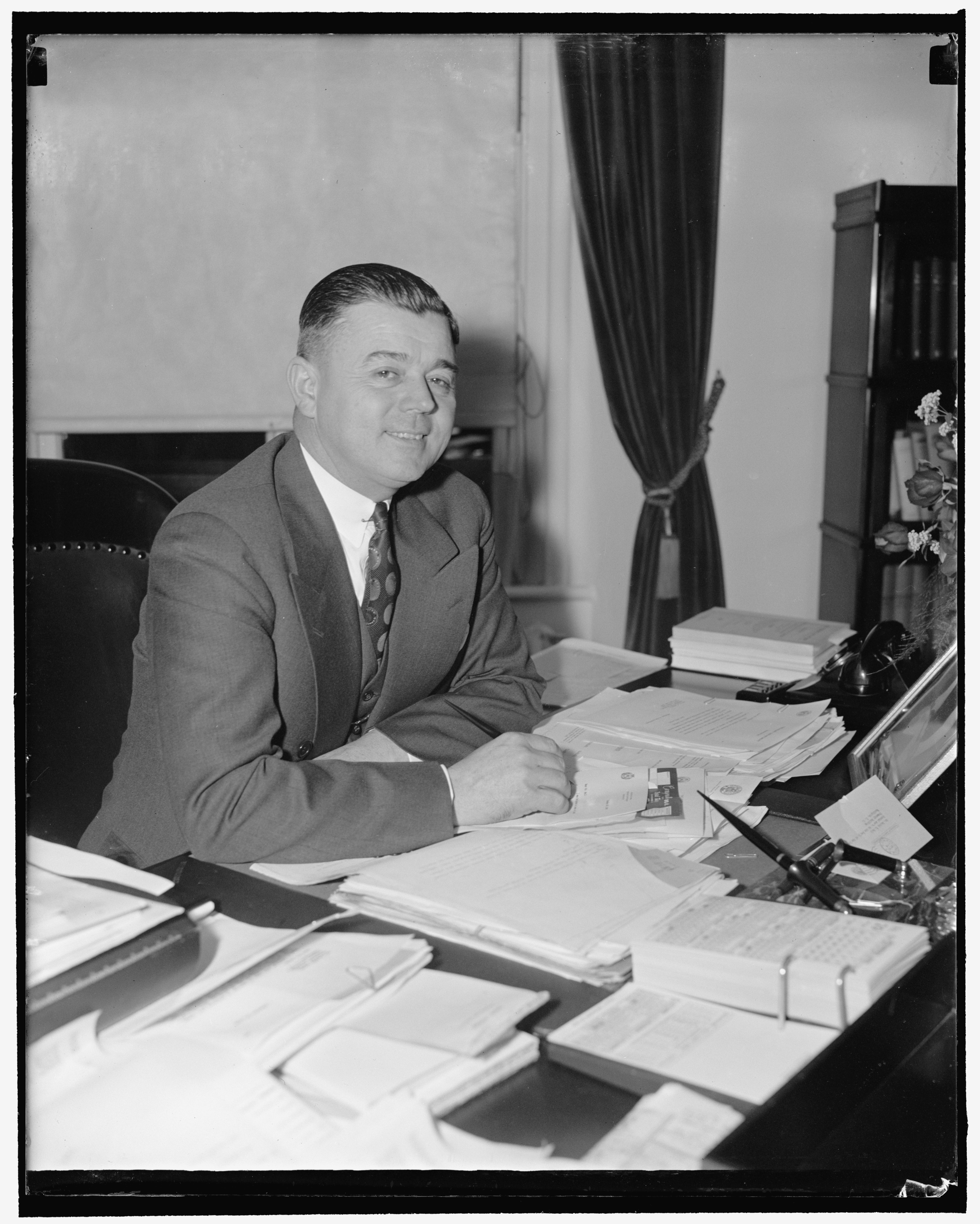 Named Undersecretary of Treasury. Washington, D.C., Dec. 30. Daniel W. Bell, a civil service career man in the Treasury for thirty years, has been named Undersecretary of the Treasury to succeed John W. Hanes, who is resigning Jan. 1 to reenter private business. The appointment is expected to be confirmed quickly by the Senate. Bell is now acting Director of the budget.